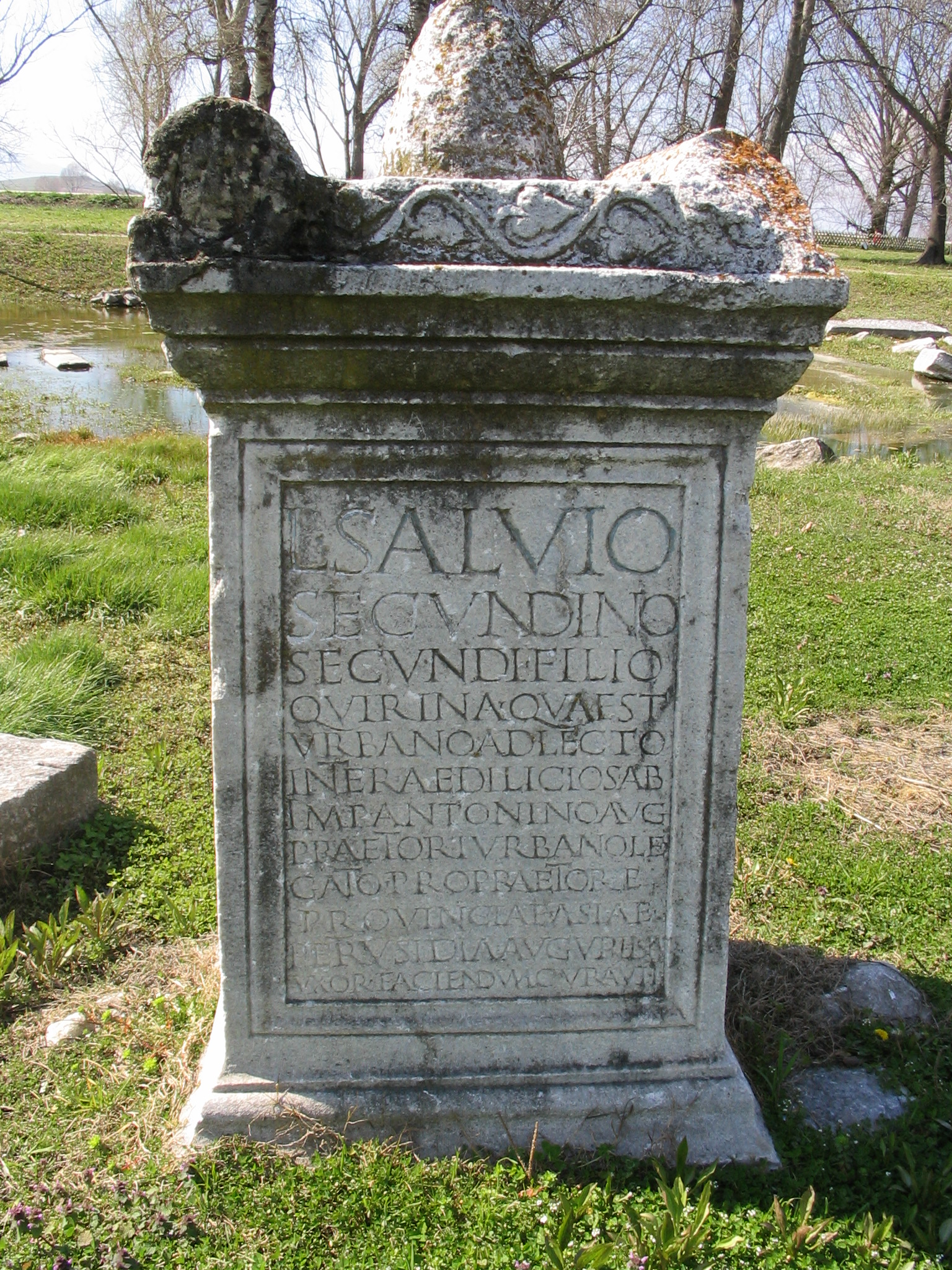 This Roman grave marker stands in Philippi (Greece), in the remains of the first-century cemetery that ran between the highway (the via Egnatia) and the river, just outside the NW gate of the city. The grave belonged to a certain L.(ucius) Salvius Secundinus son of Secundus. Today the marker is one of the few that remain intact and standing. It is in an unexcavated area adjacent to the modern Orthodox church of St. Lydia and St. Paul, close to the highway. Reference : AE 1992, 1527